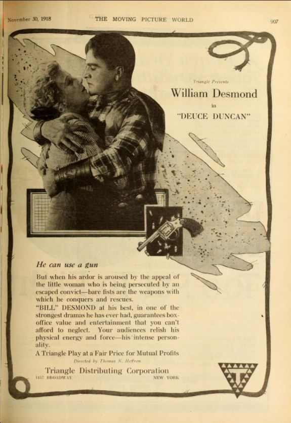 William Desmond in Deuce Duncan (1918) with Louella Maxam and William Desmond.